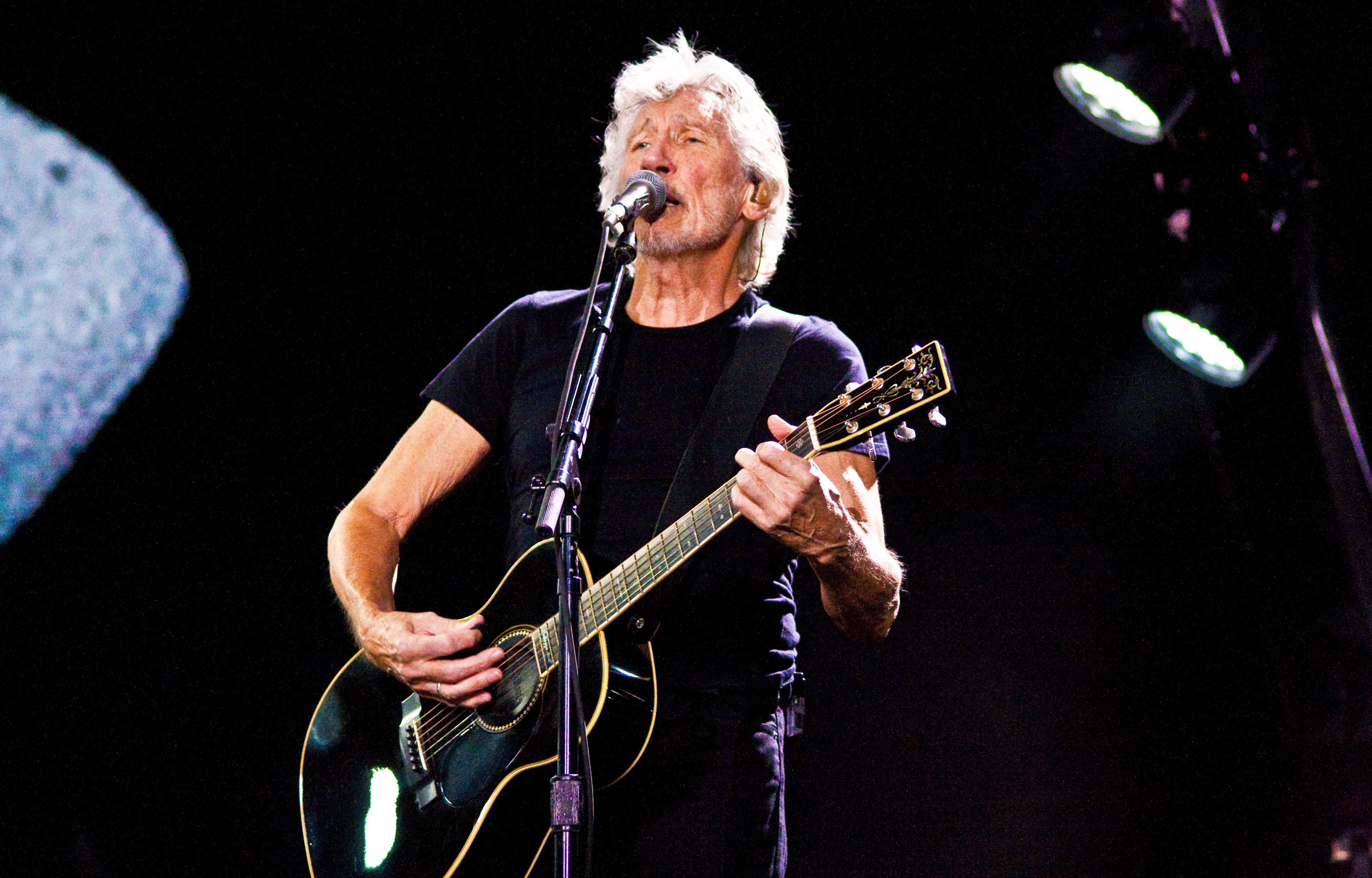 Roger Waters Us+Them Tour 2018, Estadio Nacional Chile